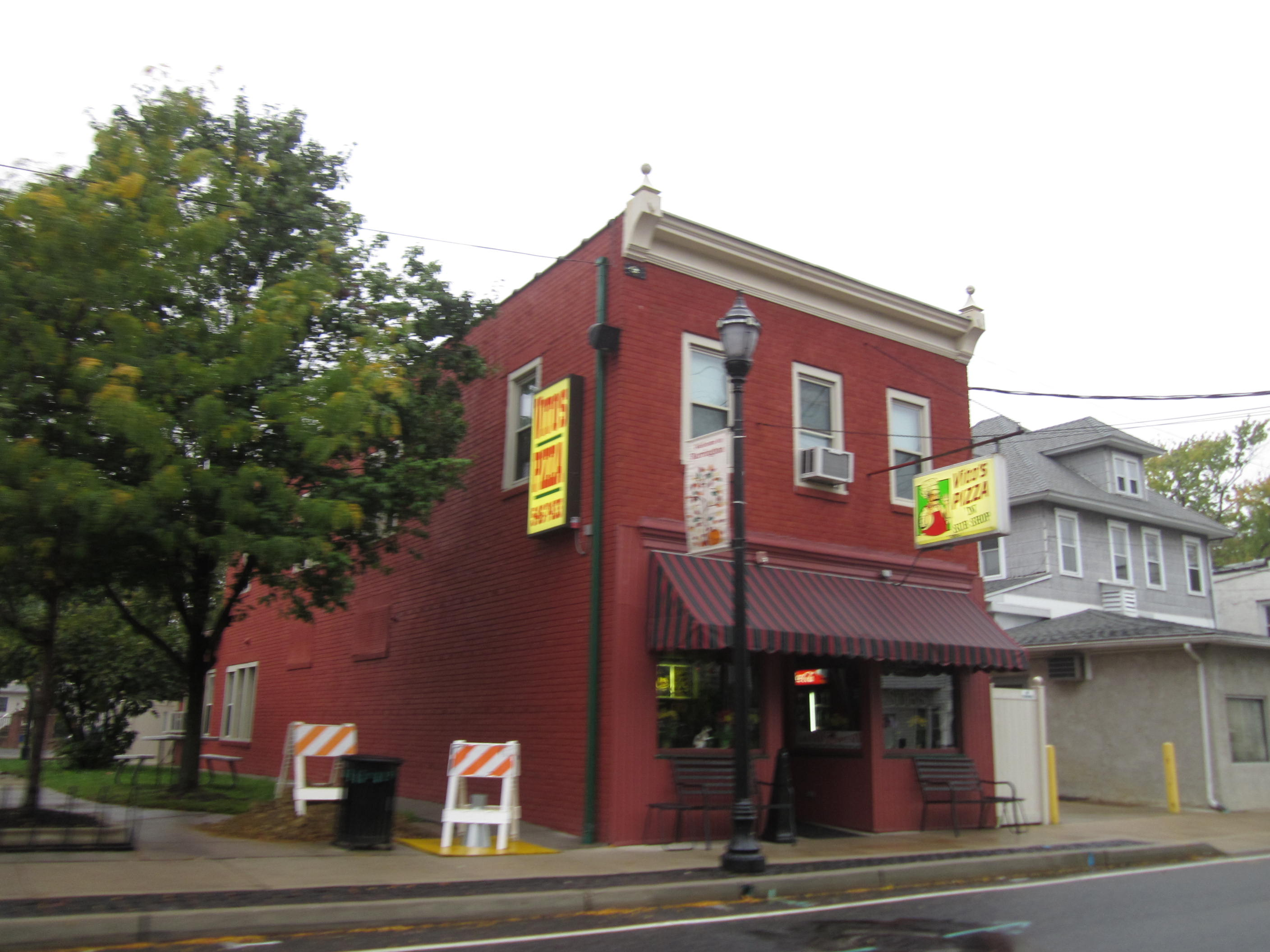 Vino's Pizza in Barrington, New Jersey. Flickr photo by Doug Kerr